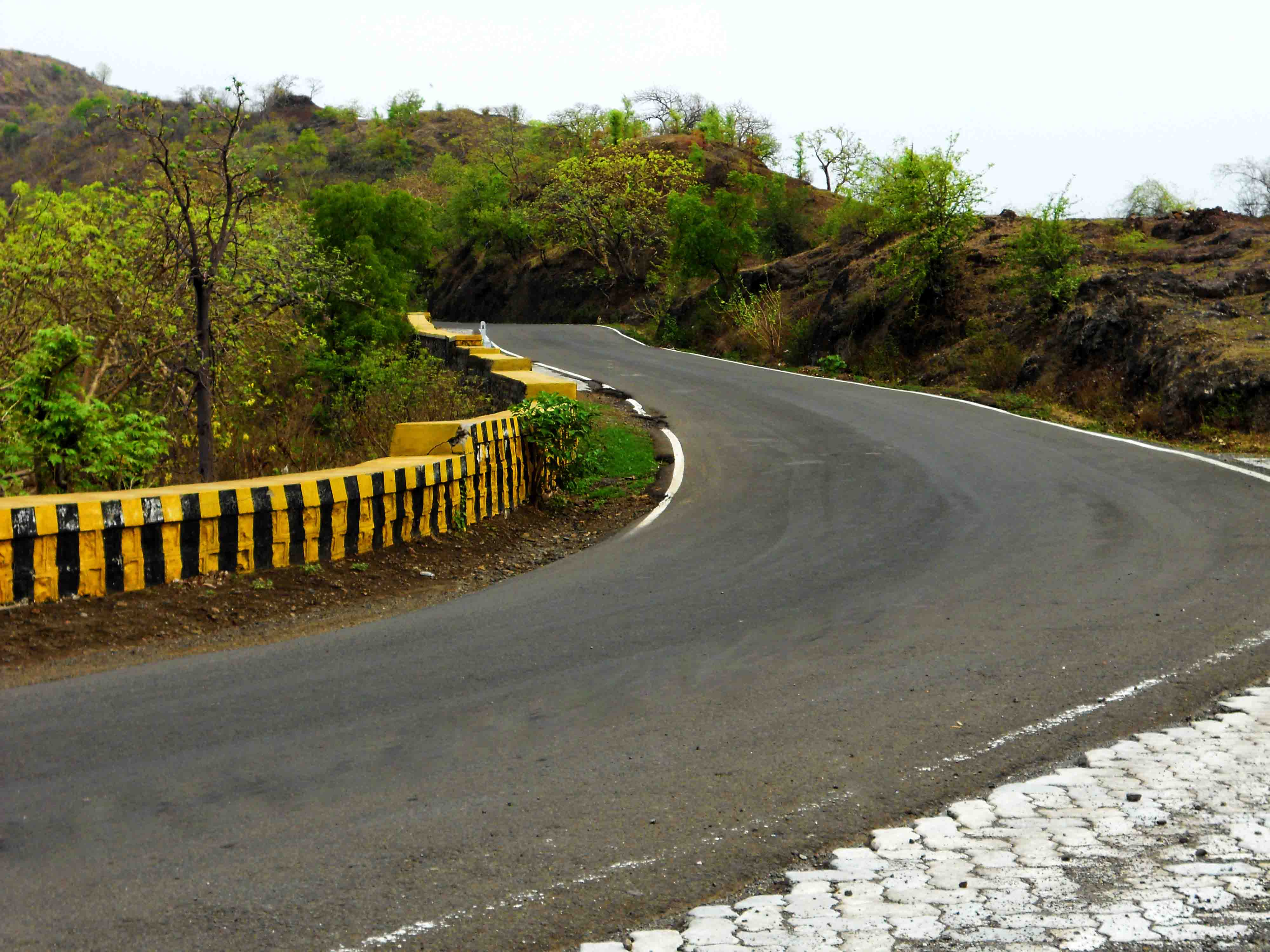 Buldhana road photograph